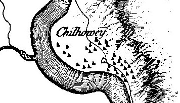 Detail of Henry Timberlake's 1765 "Draught of the Cherokee Country," showing the location and layout of the Cherokee town of Chilhowee. The Chilhowee site is now submerged under Chilhowee Lake on modern-day border between Blount County and Monroe County, Tennessee, in the southeastern United States.